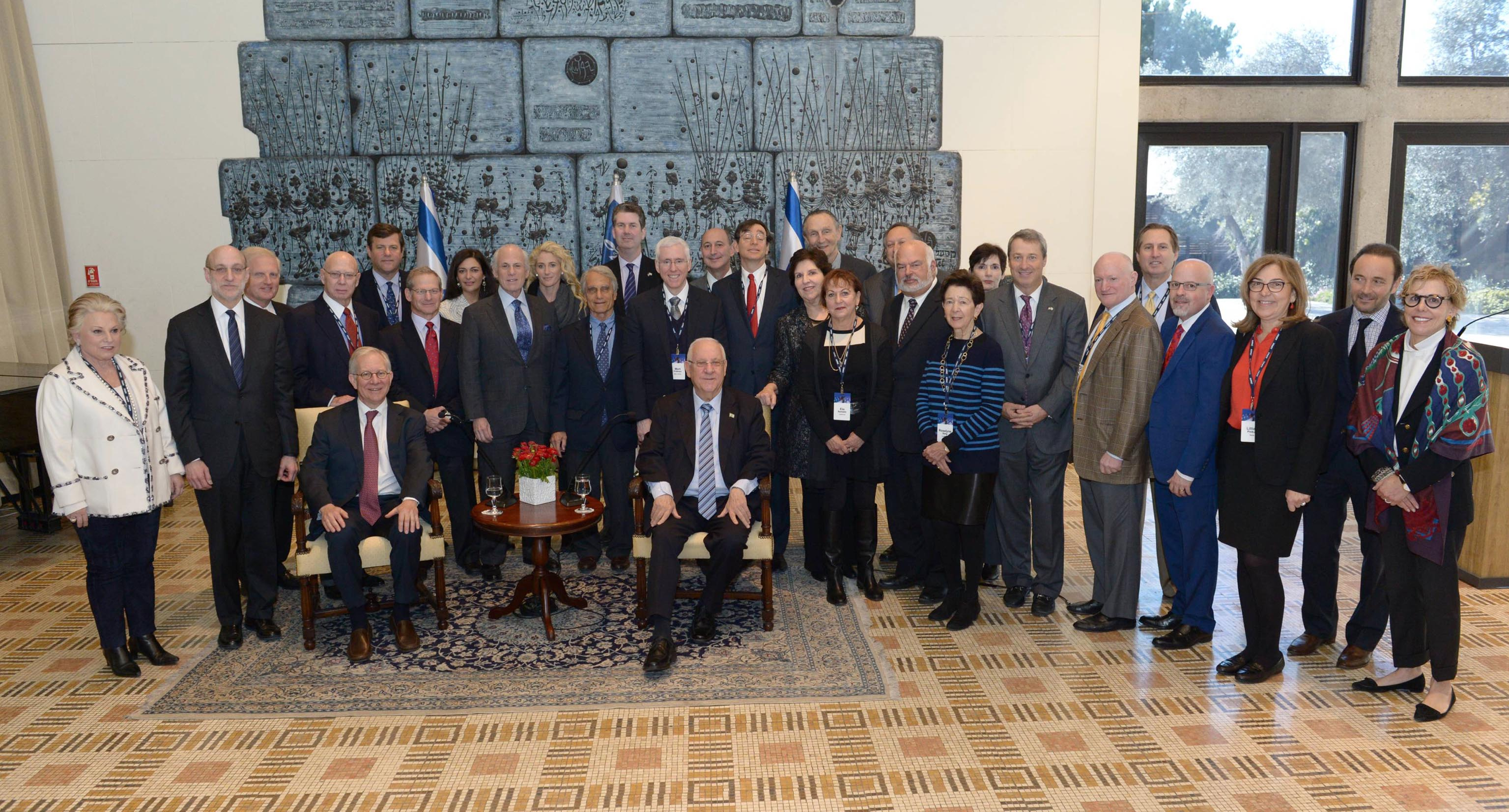 Reuven Rivlin, president of Israel, meeting senior managers of the American Israel Public Affairs Committee (AIPAC), January 14 2015